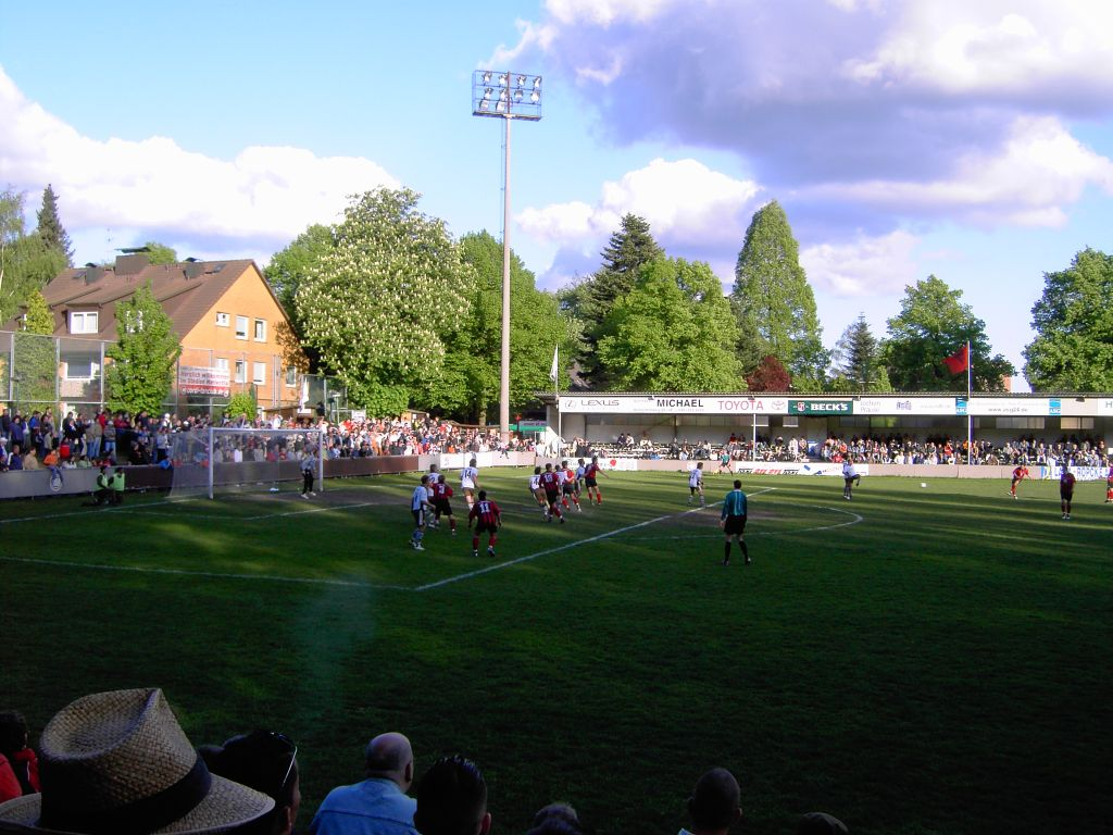 Eastern bridge of the Stadium Marienthal in Hamburg-Wandsbek, homeground of the S.C. Concordia von 1907. Picture taken by Mghamburg on 14th May 2006 during the regional cup game between S.C. Concordia (red shirts) and FC St. Pauli (white shirts)